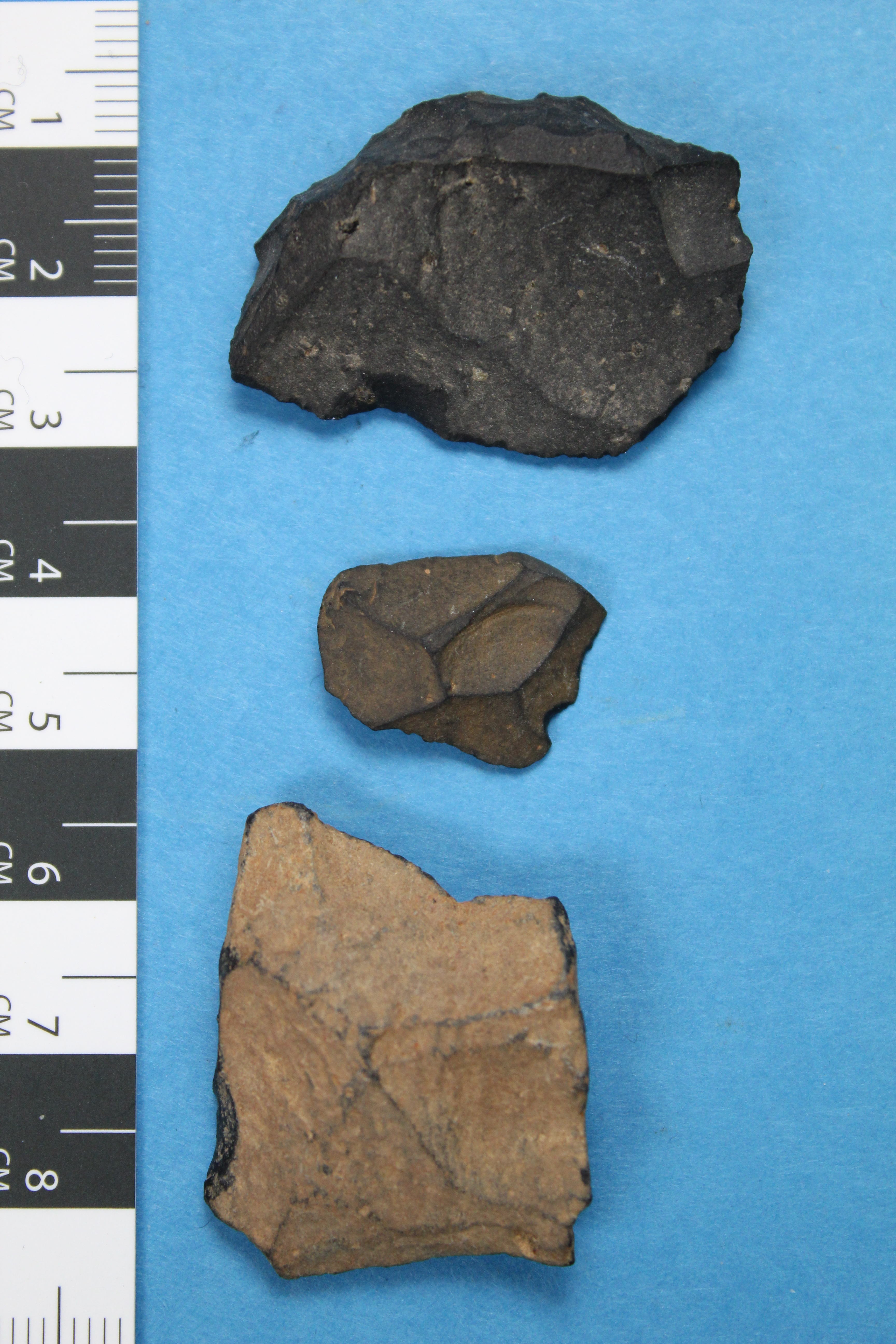 Three flaked stone artefacts from Victoria, Australia formed of tachylite, with varying degrees of patination.